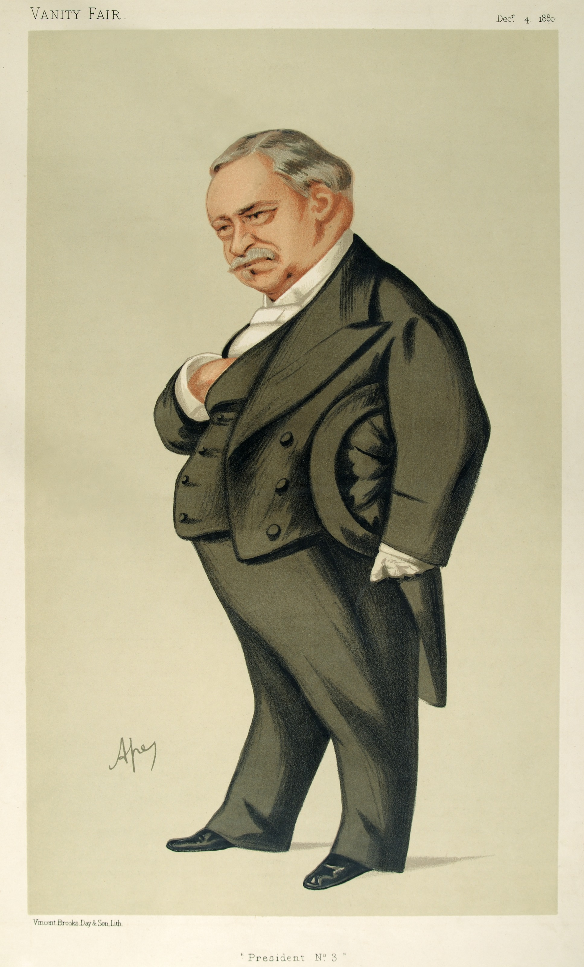 Statesmen No.347: Caricature of M Jean-Baptiste Léon Say. Caption reads: "President No. 3"